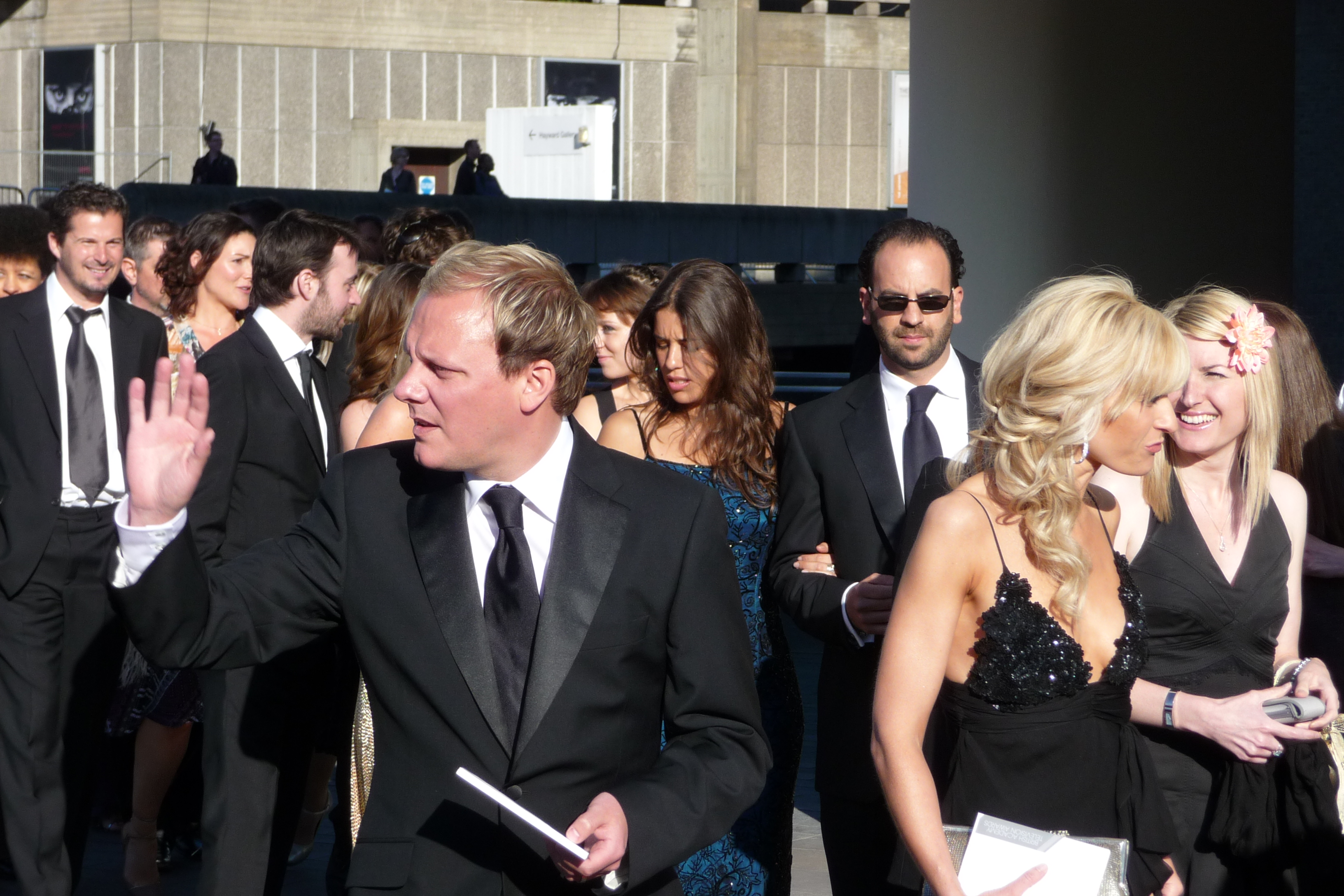 Coronation Street actors Anthony Cotton and Katherine Kelly at the BAFTA's.